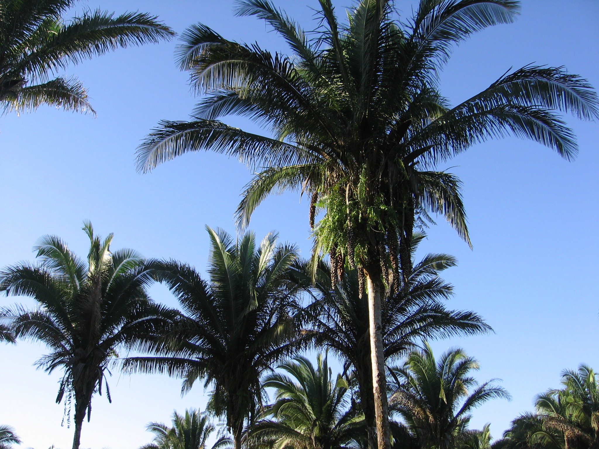 Attalea speciosa (babassu) in Itapecuru-Mirim, Maranhão State, Brazil